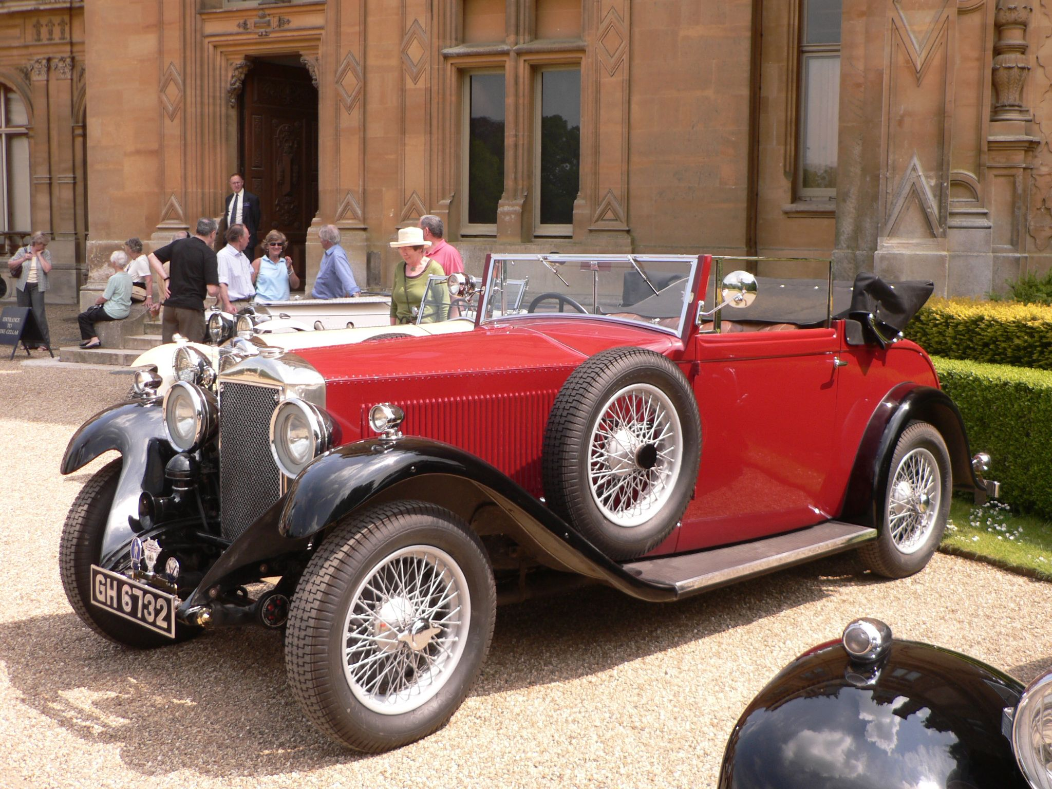 Invicta drophead coupé (DVLA) first registered 12 August 1932, 4467cc